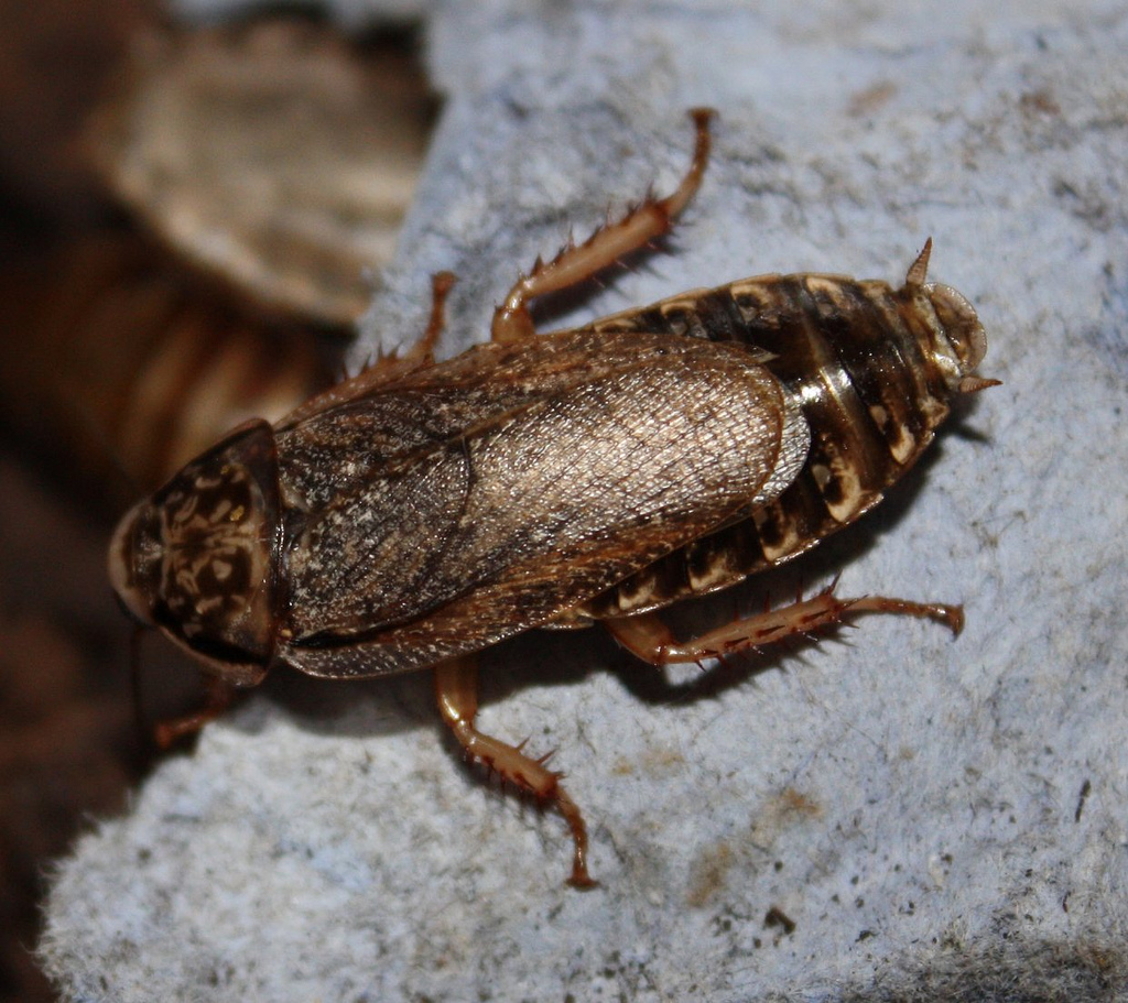 Adult of Nauphoeta cinerea